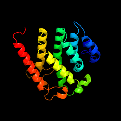 This is a PHYRE2-predicted structure for the c10orf76 protein. It is thought to be similar to the structure of human Symplekin, which participates in polyadenylation regulation and general expression regulation.